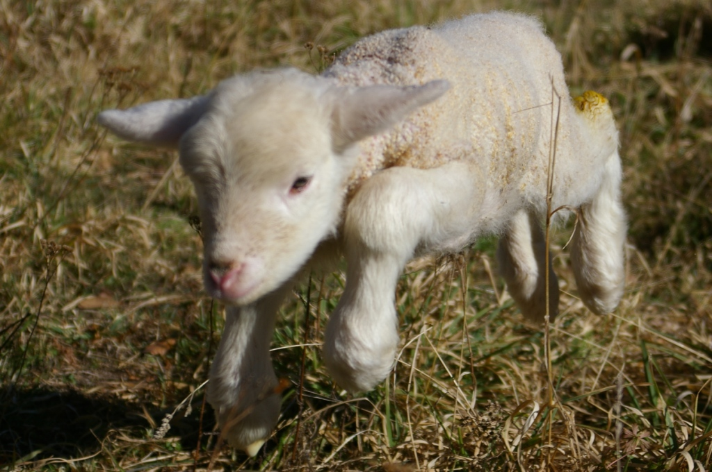 An Australian lamb's first steps.